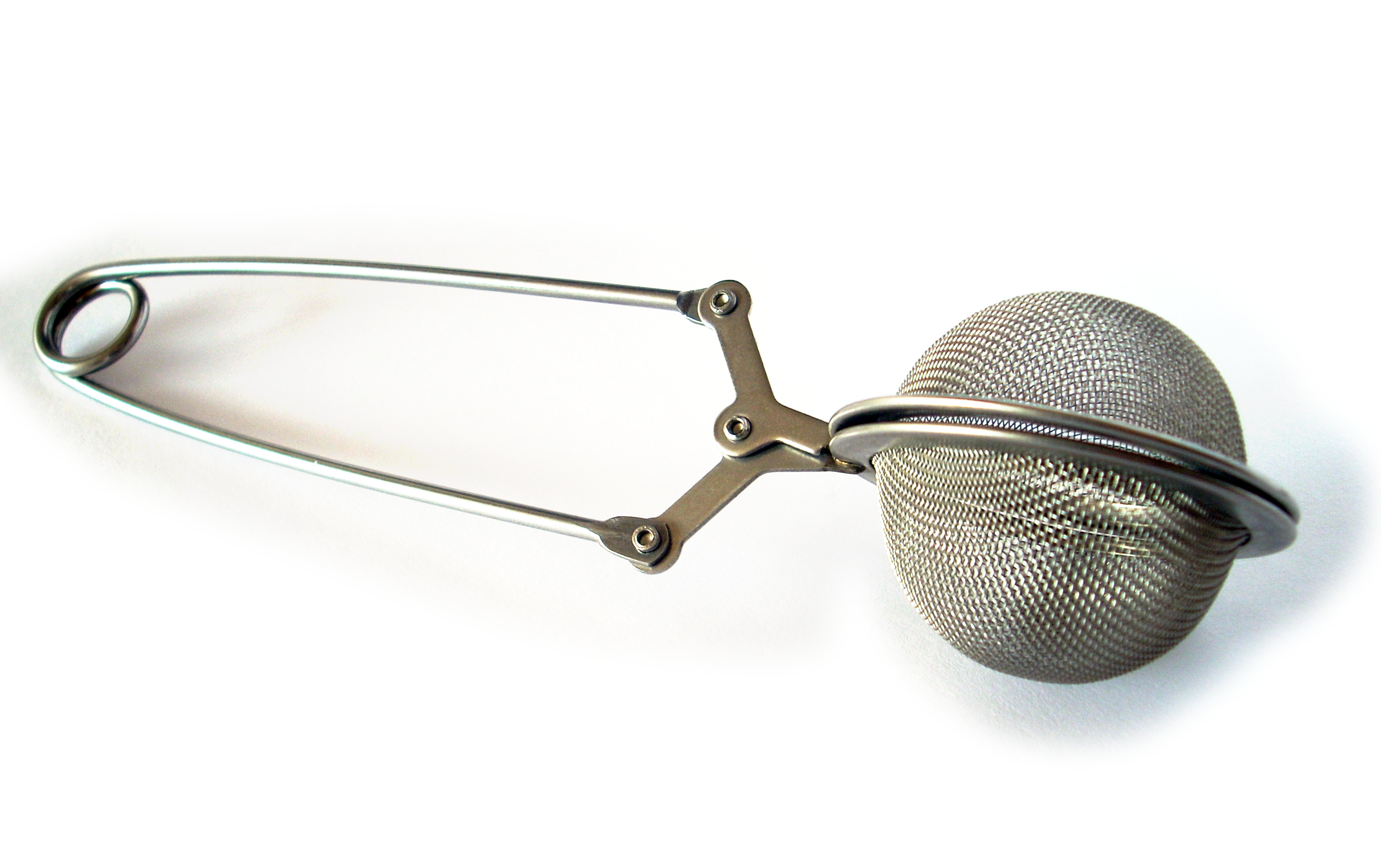 Tea filters